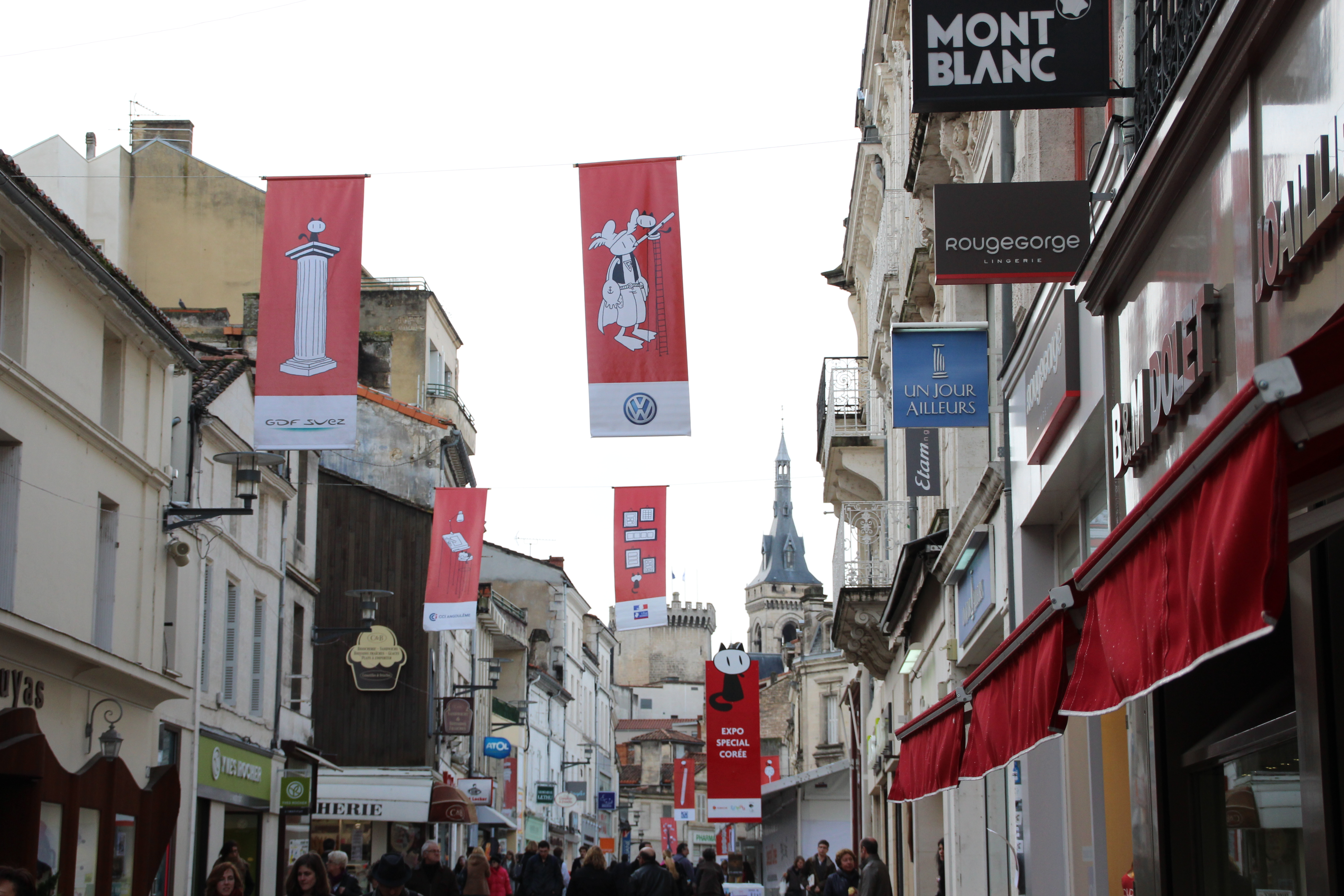 Angoulême International Comics Festival 2013.